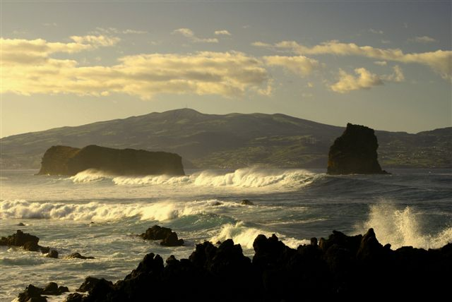 The islets of the parish of Madalena, on the island of Pico, with the island of Faial in the distance, Azores